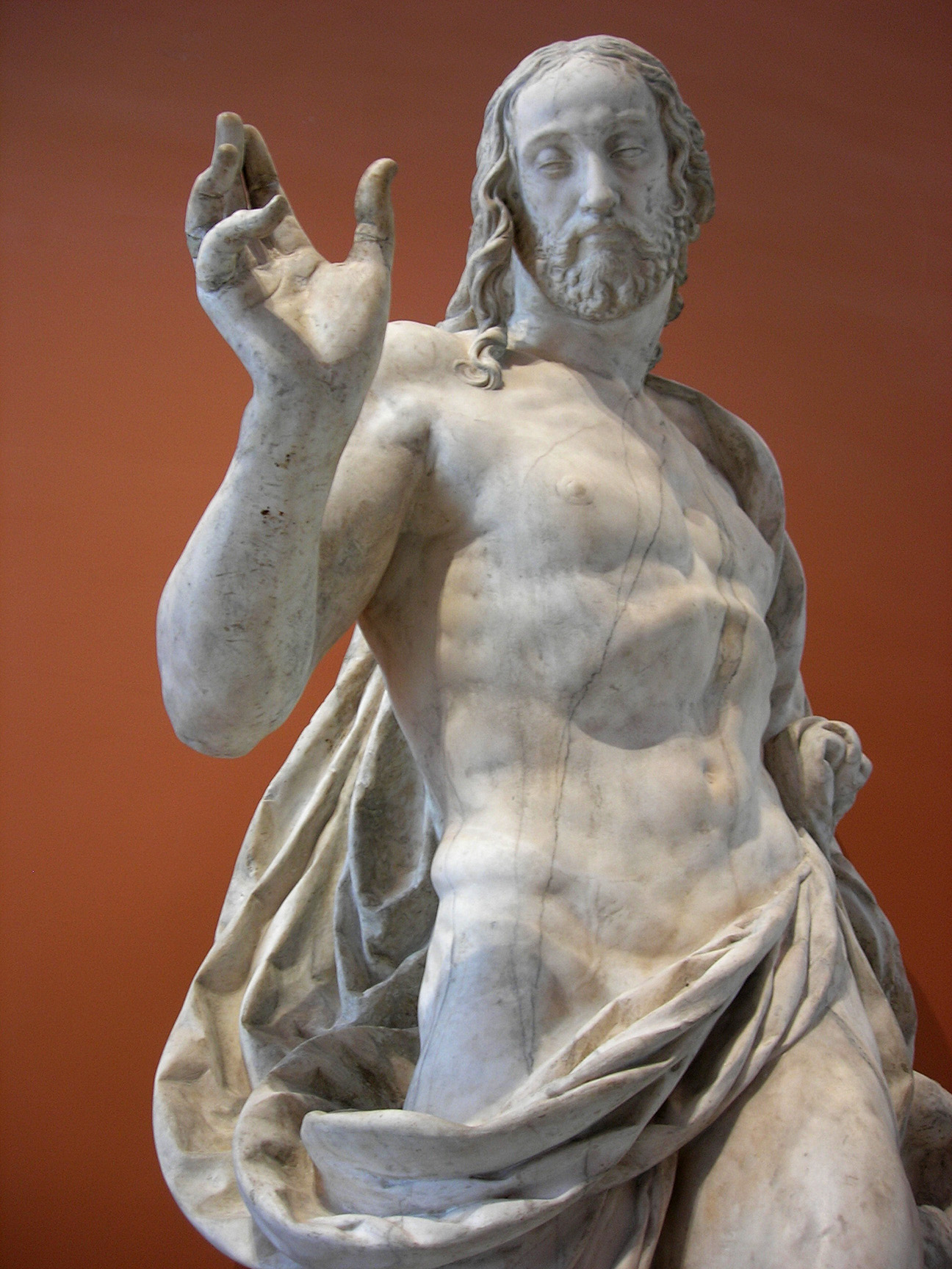 Jesus Christ, part of the Resurrection group. Marble, before 1572.